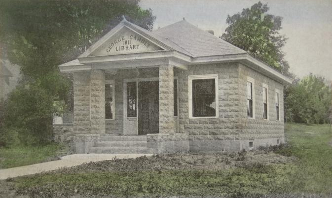 George Gamble Library, Danbury, New Hampshire. It was built in 1911.